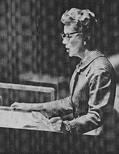 American actress Irene Dunne addresses the United Nations General Assembly about the United States' contributions towards United Nations' refugee-relief programs